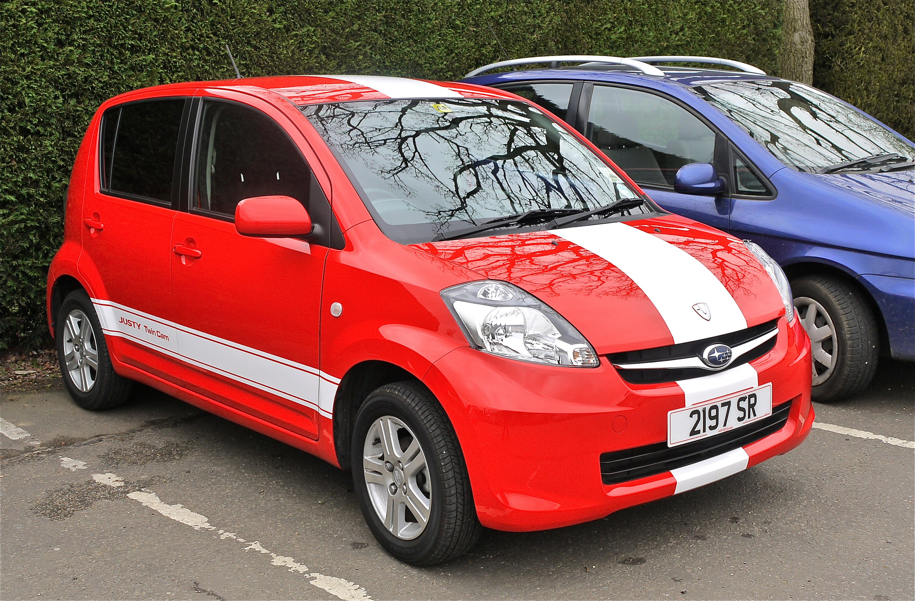 Subaru hot version of our Daihatsu Sirion. Panasonic G1 14-45 Lens